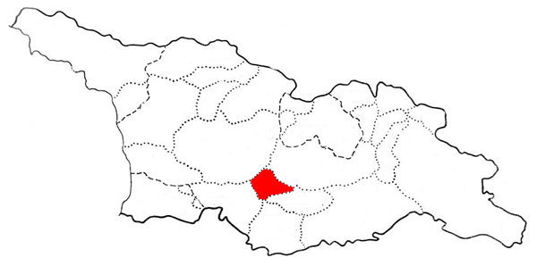 map of Tori, a historical region of Georgia